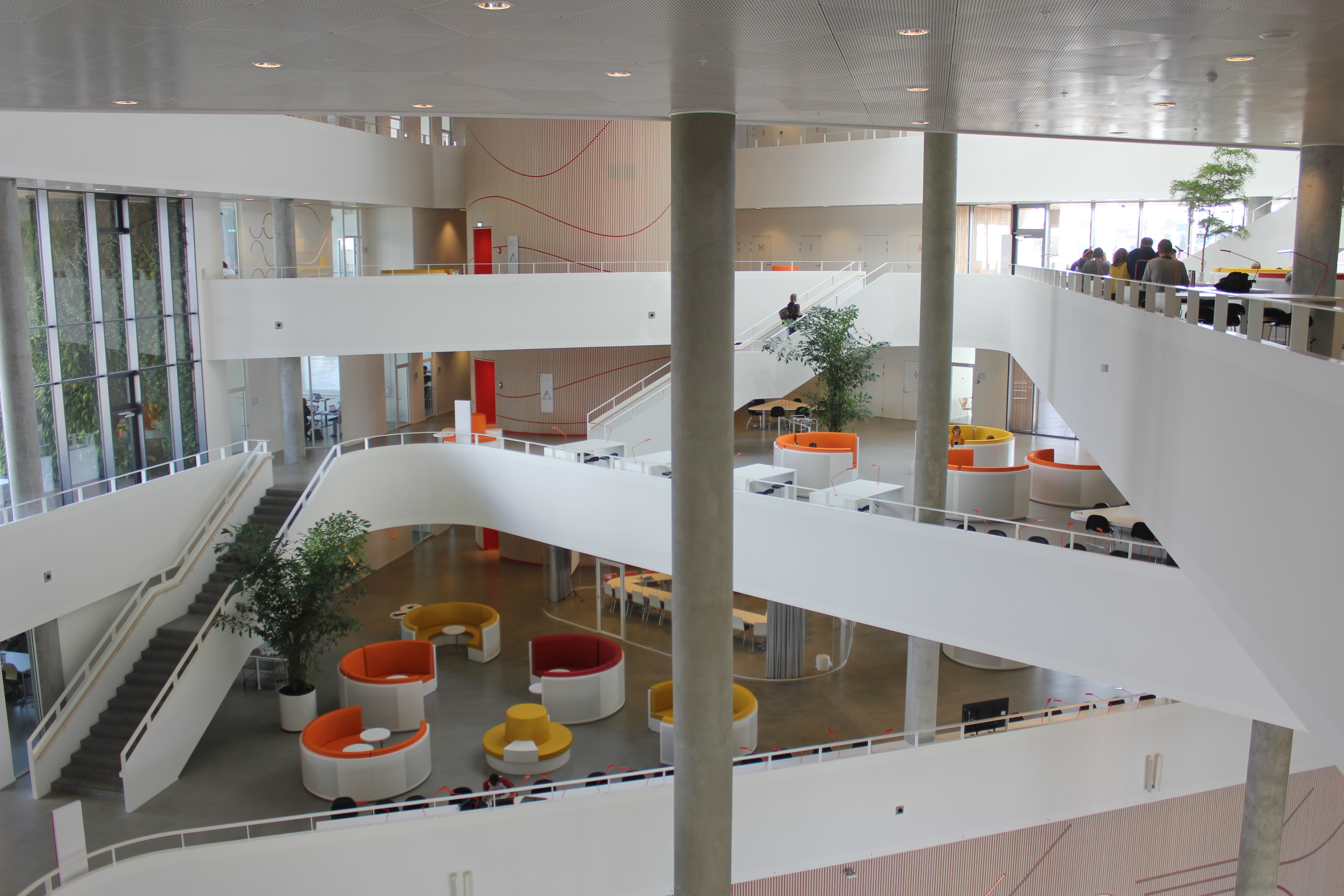 Campus Kolding is a part of Syddansk Universitet (University of Southern Denmark) and is made in 2012-2014. The building has a triangular shape and is designed by Henning Larsen Architects. Students started using it 1. september 2014.There are approximately 3000 sudents and 200 employees.